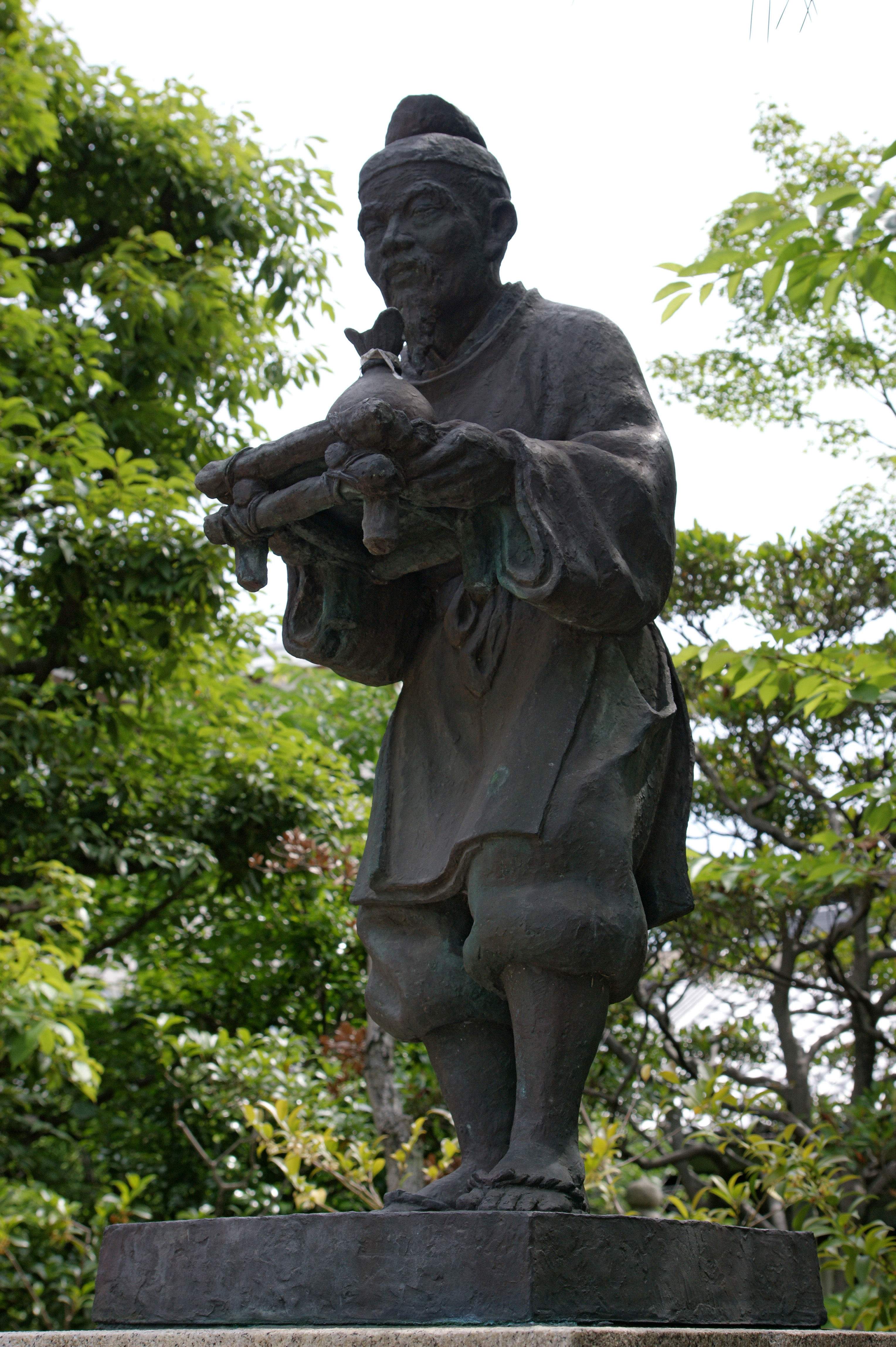 Rikyu-hachimangu in Oyamazaki-cho, Otokuni-gun, Kyoto prefecture, Japan